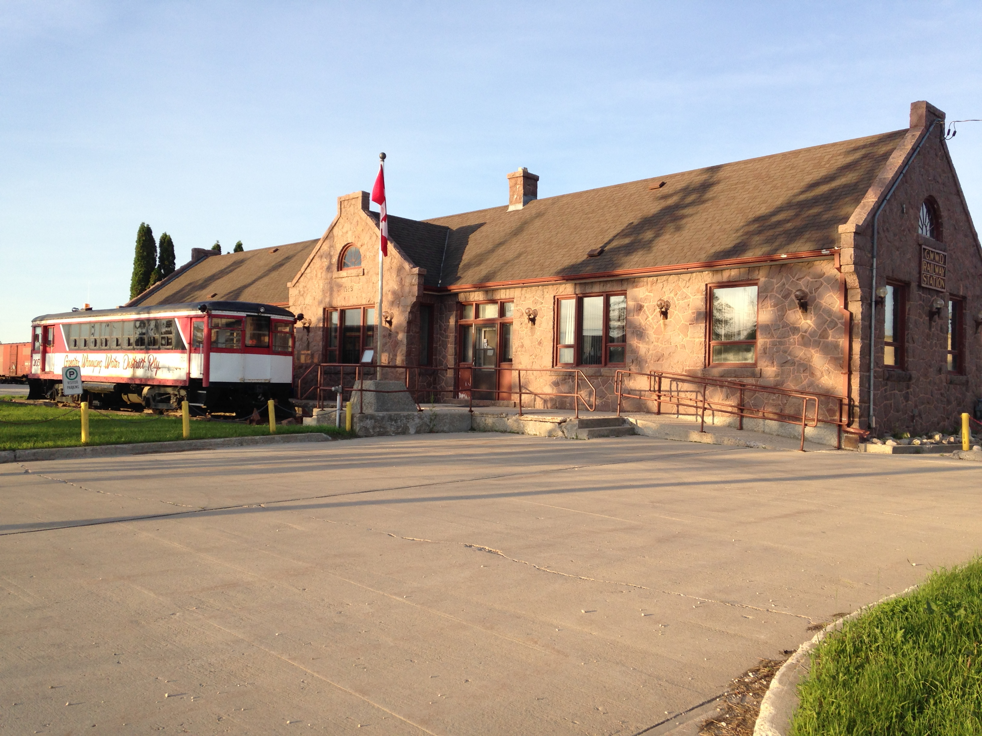 Depot of the Greater Winnipeg Water District Railway, 598 Plinguet, Winnipeg